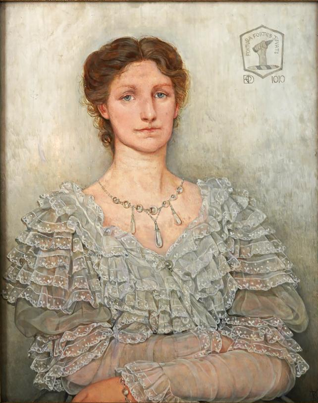 Portrait of Edith Macneile Dixon (née Wales), wife of William Macneile Dixon. Oil on board, inscribed 'Fortuna Fortes Juvat' ('Fortune Favours the Brave'), signed lower right, label on verso. Gilt ornate carved wood frame. Measures 25.5"H x 21 5"W framed; 20"H x 15.75"W unframed. Offered for auction in January 2019 by Abington Auction Gallery of Fort Lauderdale, FL, USA.